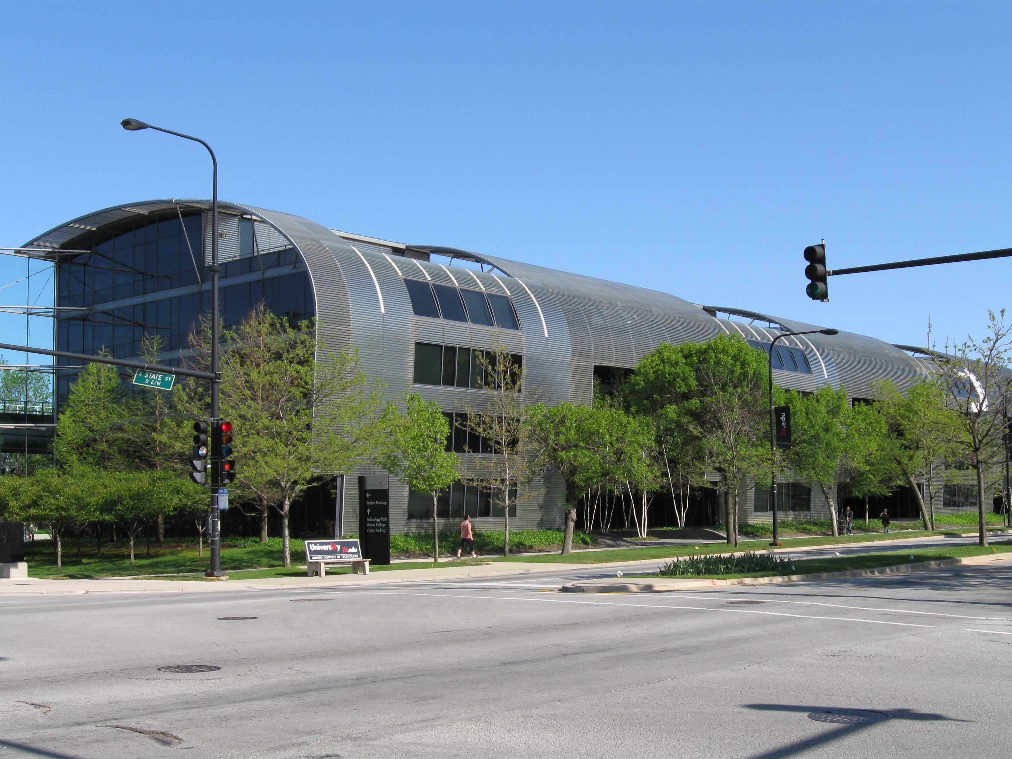 State Street Village accommodation at Illinois Institute of Technology in Chicago, USA.